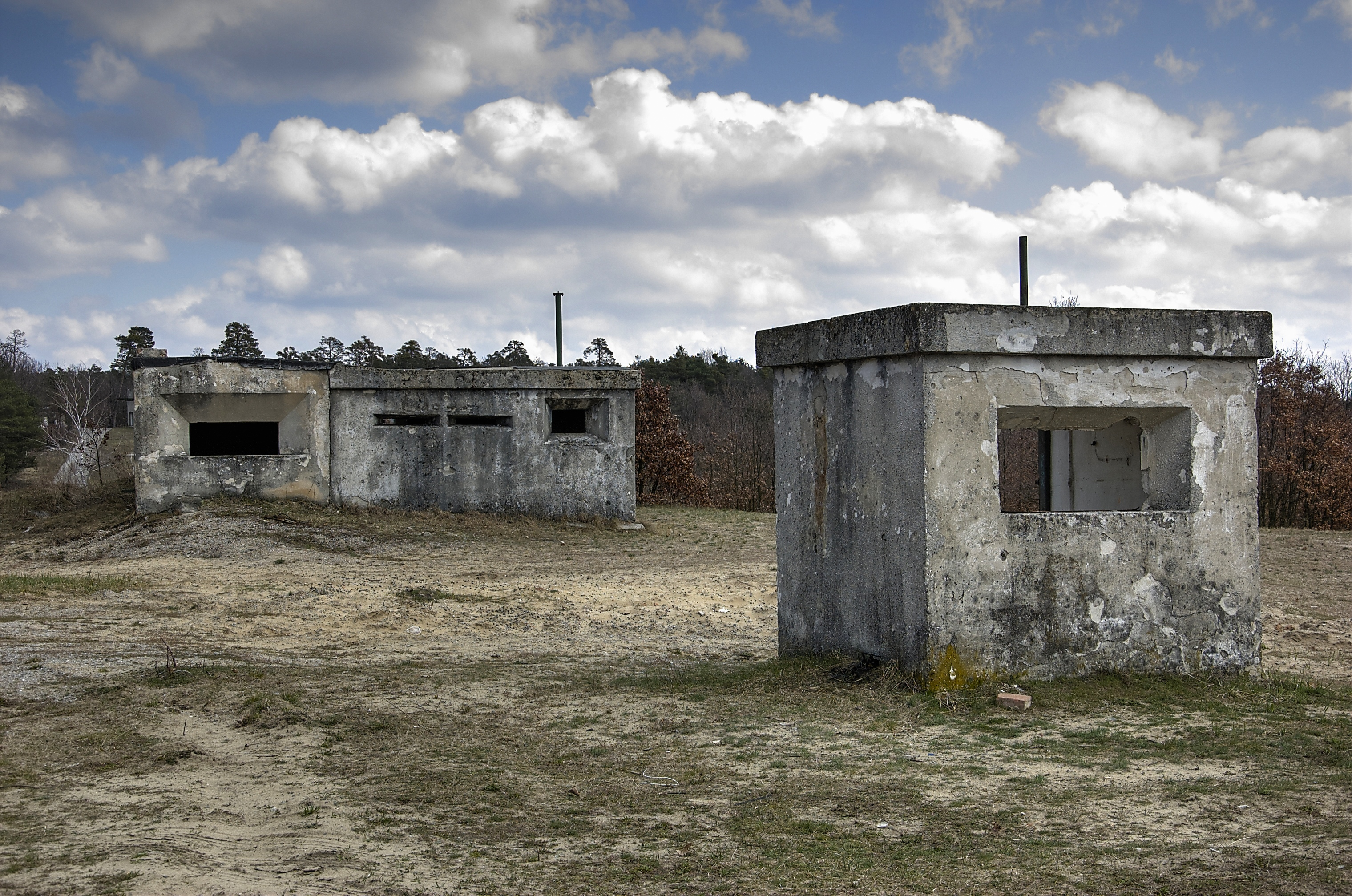 Old observation bunkers near Lakšárska Nová Ves, Slovakia